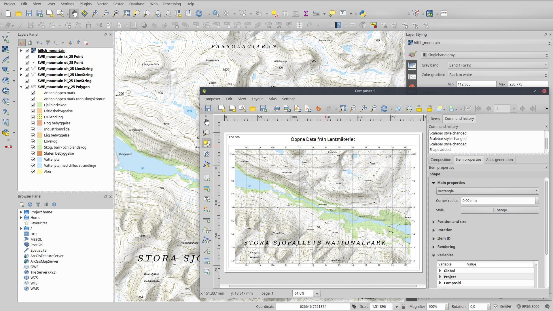 QGIS 2.18 with the separate layout manager (print composer)(GPL). Map data from Lantmäteriet (CC-0). This screenshot either does not contain copyright-eligible parts or visuals of copyrighted software, or the author has released it under a free license (which should be indicated beneath this notice), and as such follows the licensing guidelines for screenshots of Wikimedia Commons. You may use it freely according to its particular license. Free software license: see below Note: if the screenshot shows any work that is not a direct result of the program code itself, such as a text or graphics that are not part of the program, the license for that work must be indicated separately.